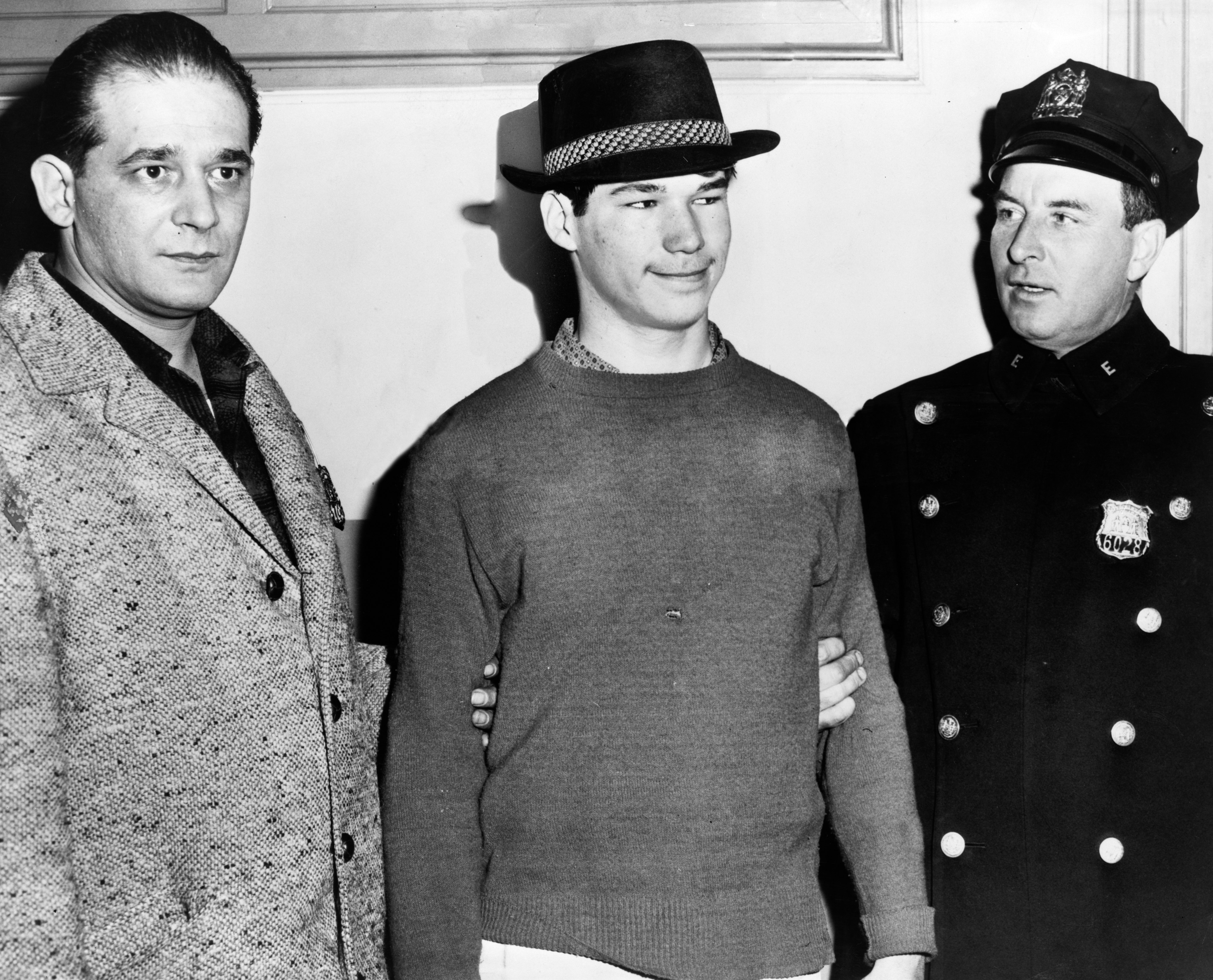 Carl Cintron flanked by Transit Patrolman Ernest Fatoruso, and Patrolman Frank Collins of Safety Unit E at Poplar St. police station Brooklyn.